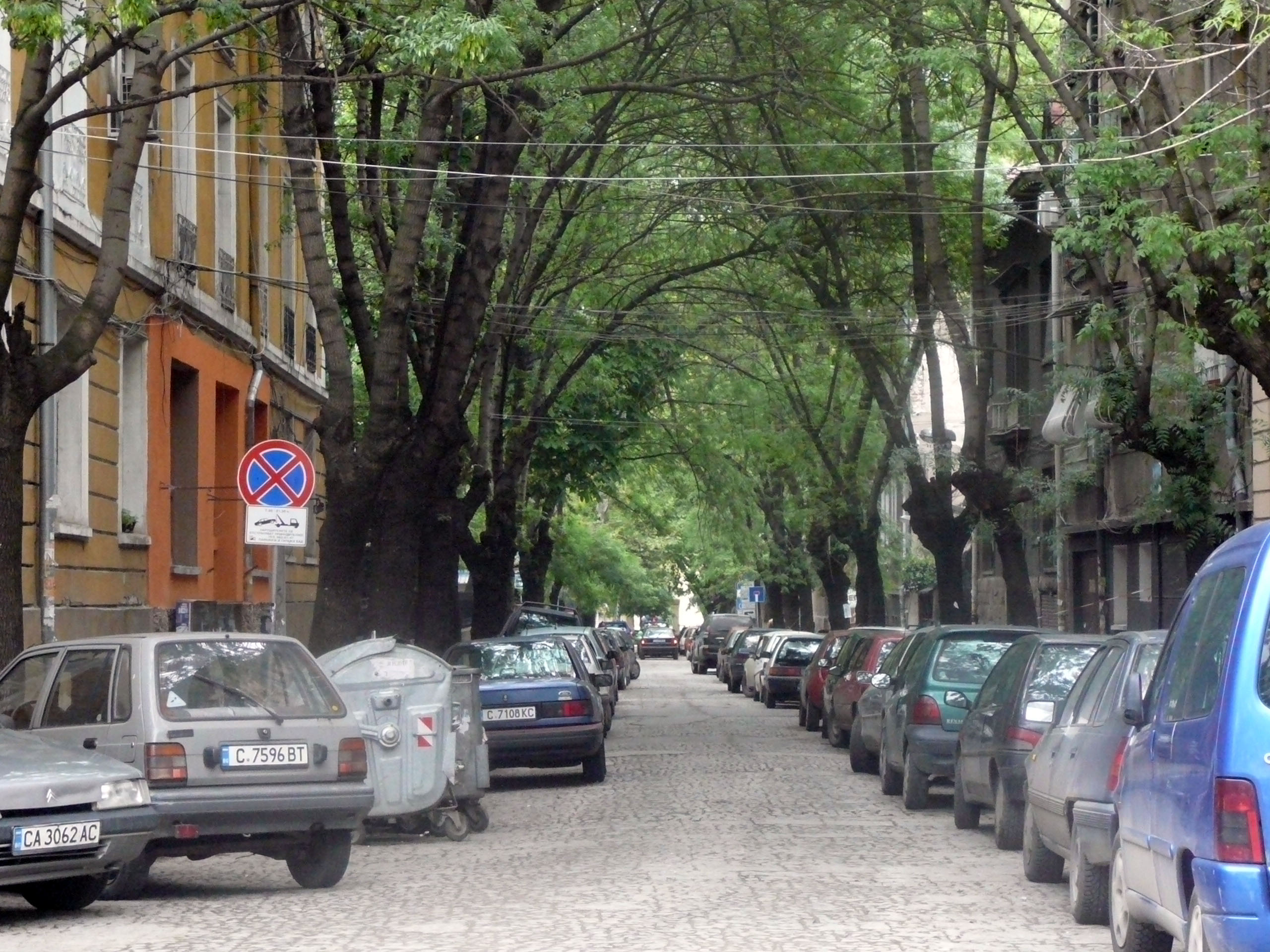 Sheinovo Street (Sofia)